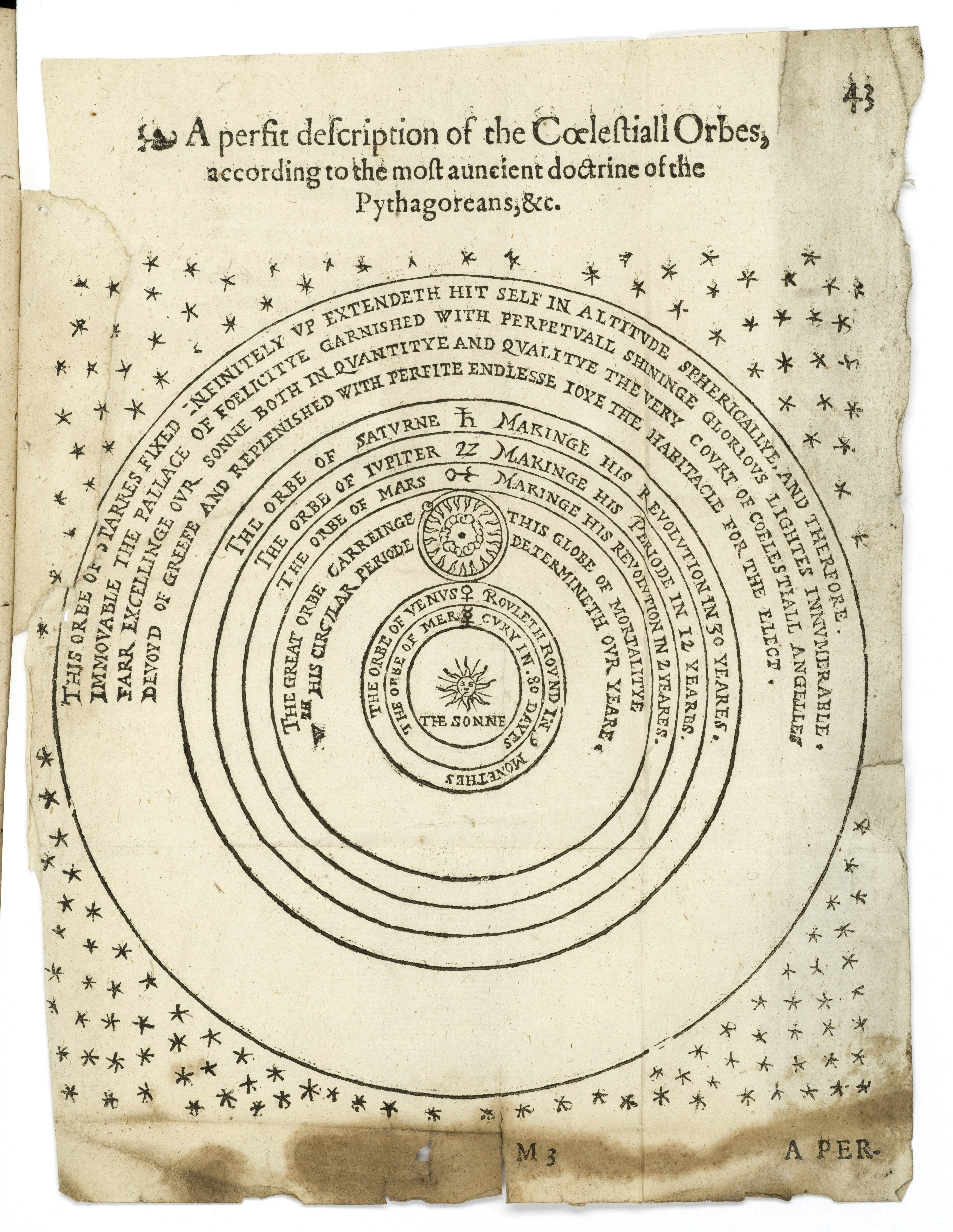 Thomas Digges' diagram of the universe Rare Books Keywords: Astrology